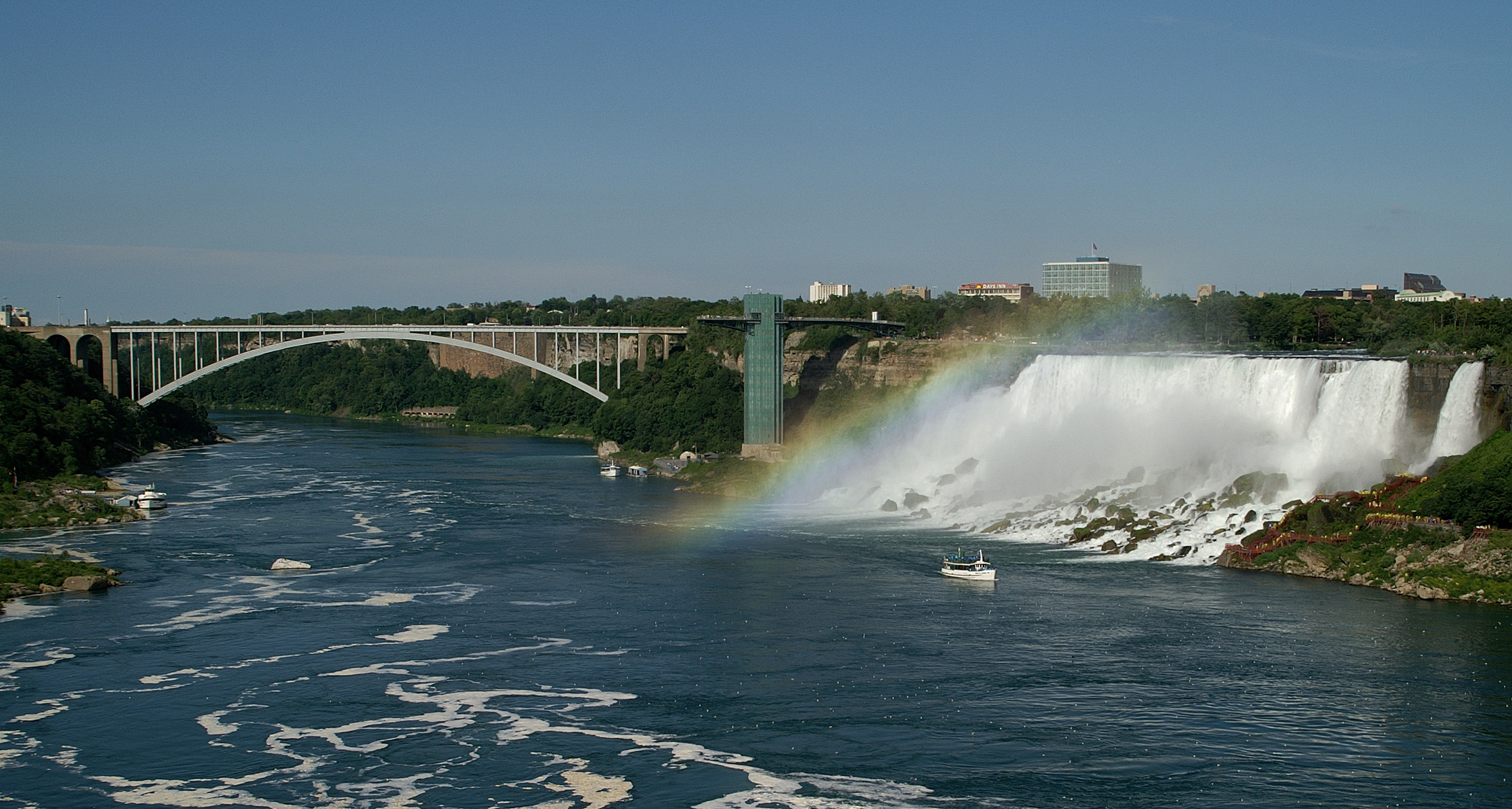 The appropriately named Rainbow Bridge at Niagara Falls.